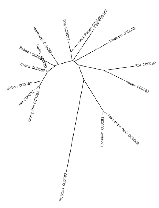 An unrooted phylogenetic tree for CCDC82 generated by biology workbench.